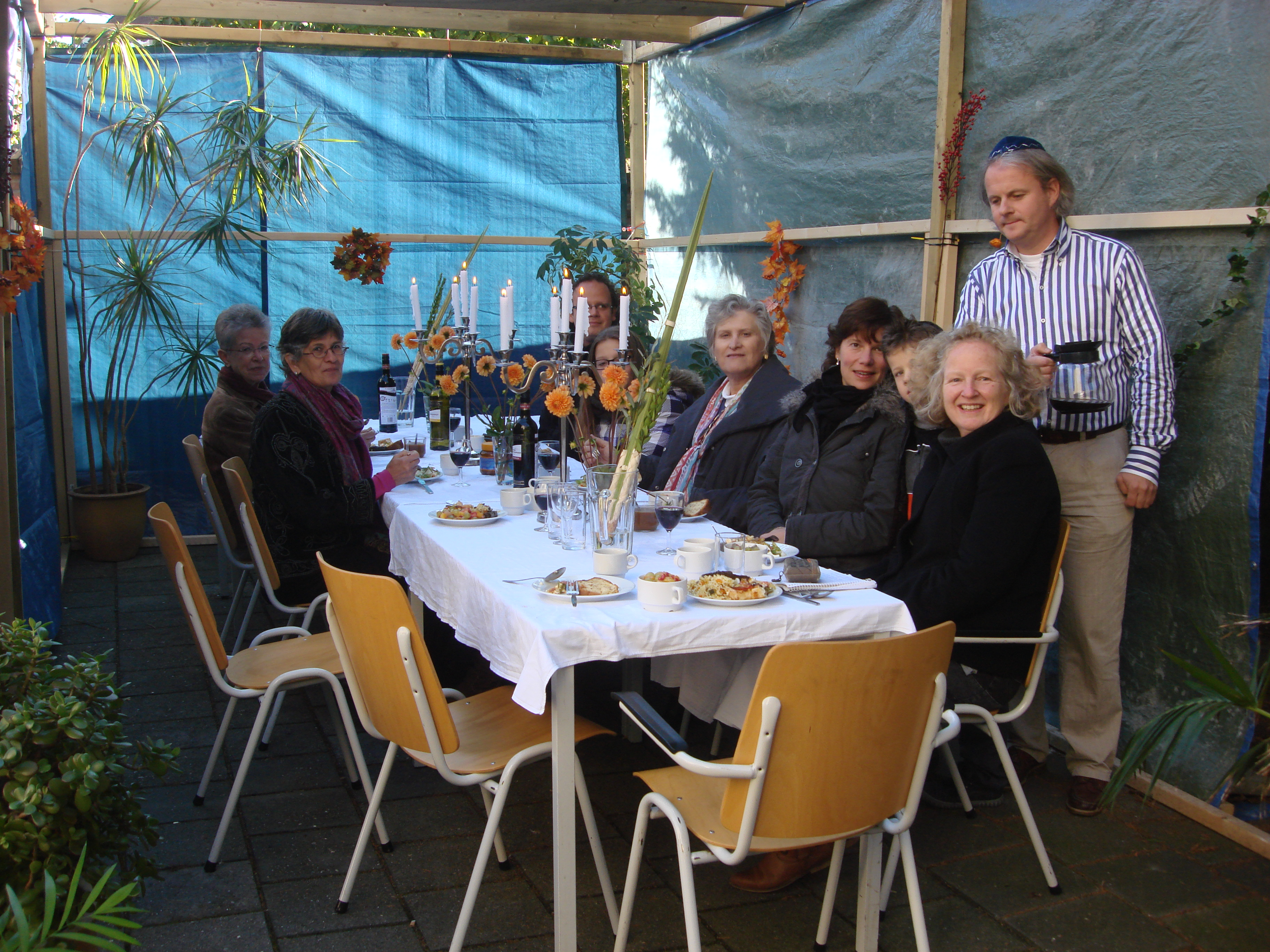 De loofhut / soeka van Beth Shoshanna, soekot 5772 / 2011